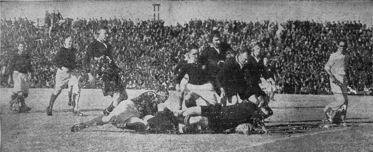 South Africa 26 v. British Lions 12 at Ellis Park.